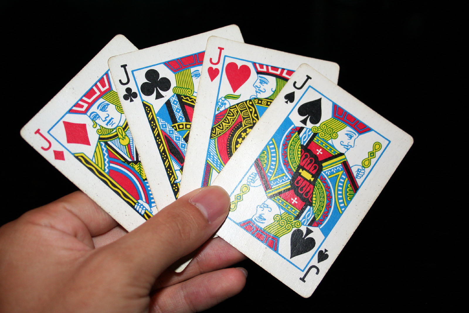 A hand holding the four Jacks in a standard deck of cards: Diamonds, Clubs, Hearts, Spades.